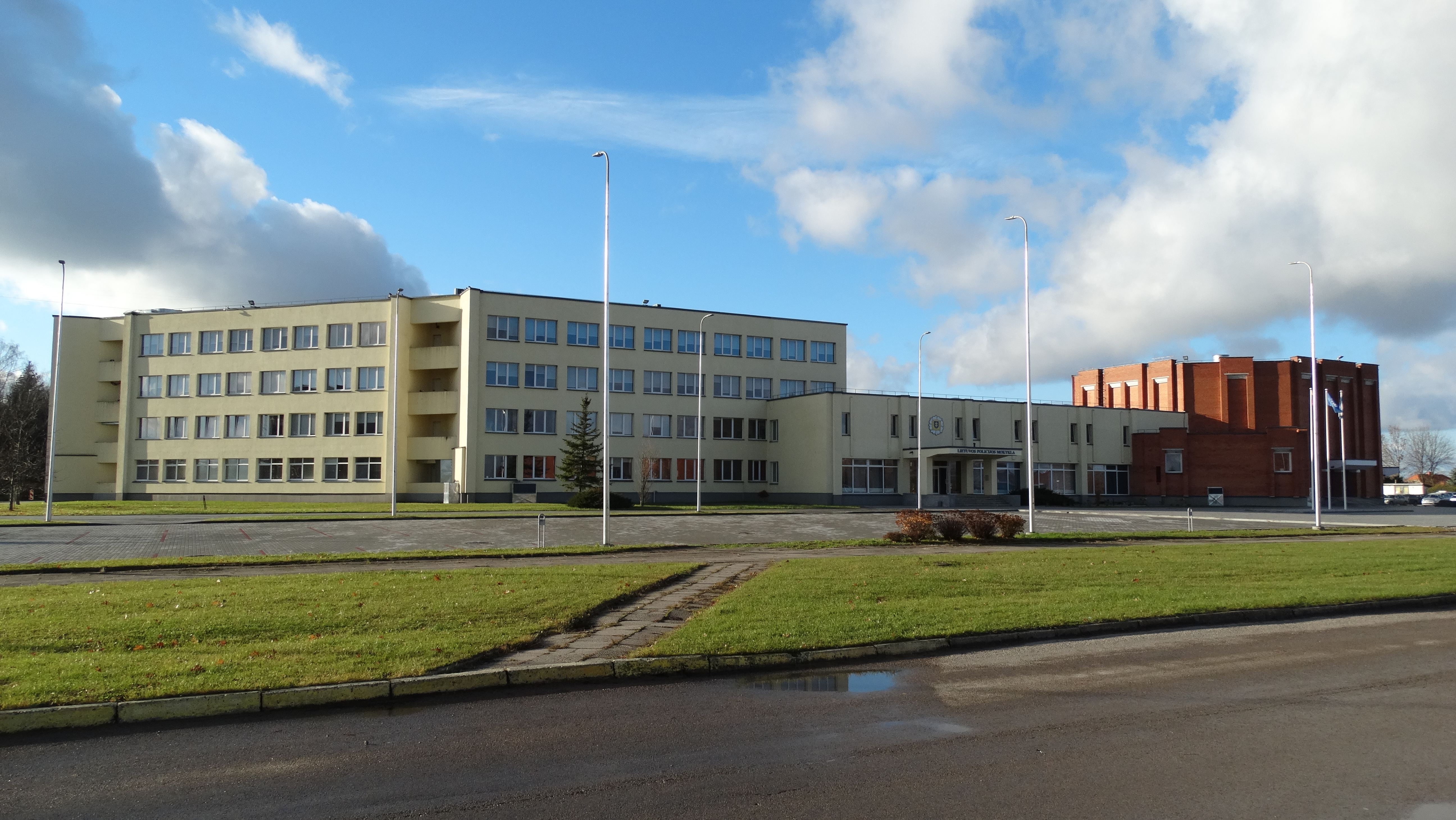 Police School, Mastaičiai, Kaunas district, Lithuania